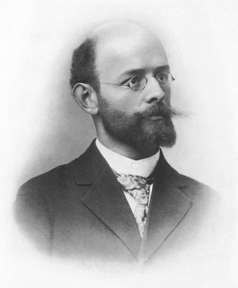 Portrait Ulrich Stutz (1868–1938)